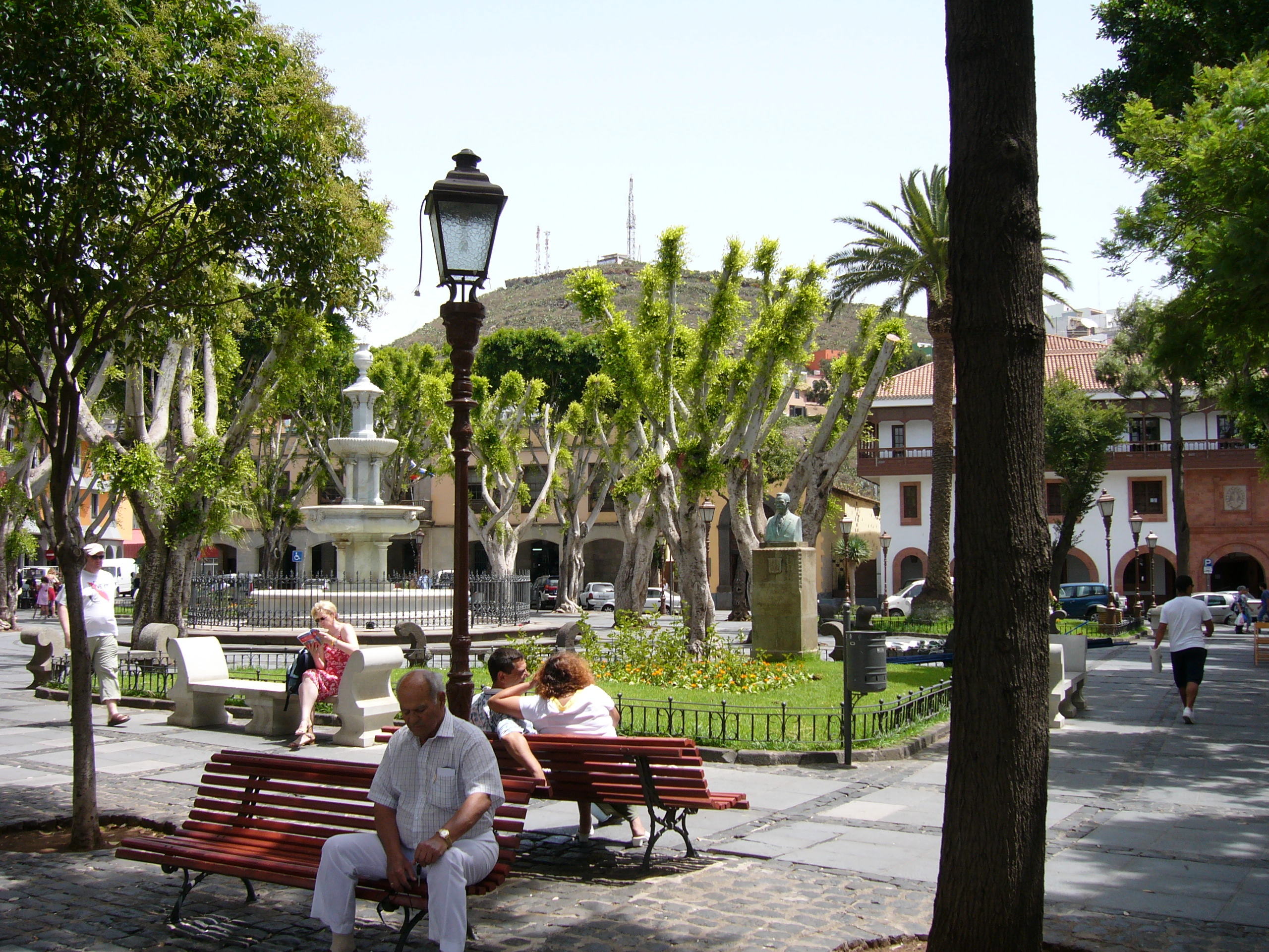 Tenerife, Canary Islands, Spain Sept. 2005 Olaf A. Koch own picture